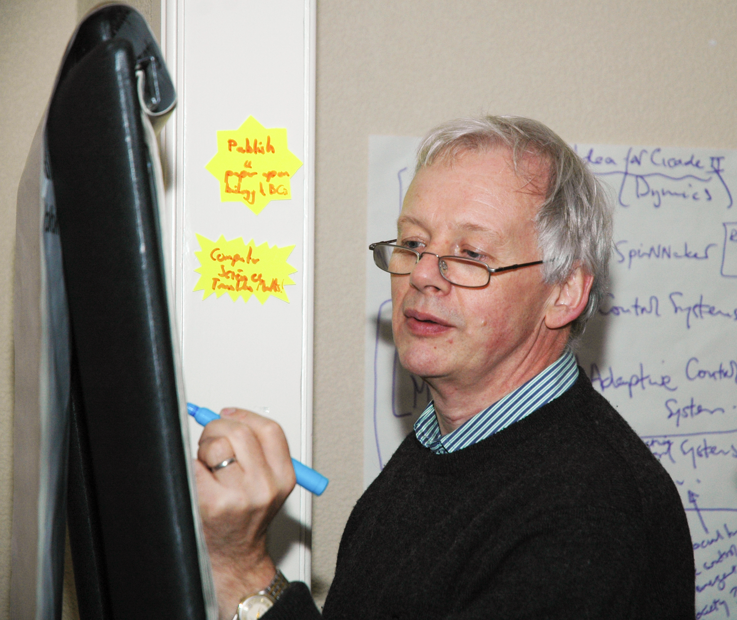 David Broomhead at CICADA Creativity Workshop, 3-4 November 2010, Shigley Hall Hotel, Cheshire.